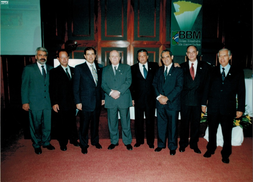 Photo taken at the inauguration of the Brazilian Commodities Exchange on 10/22/2002.